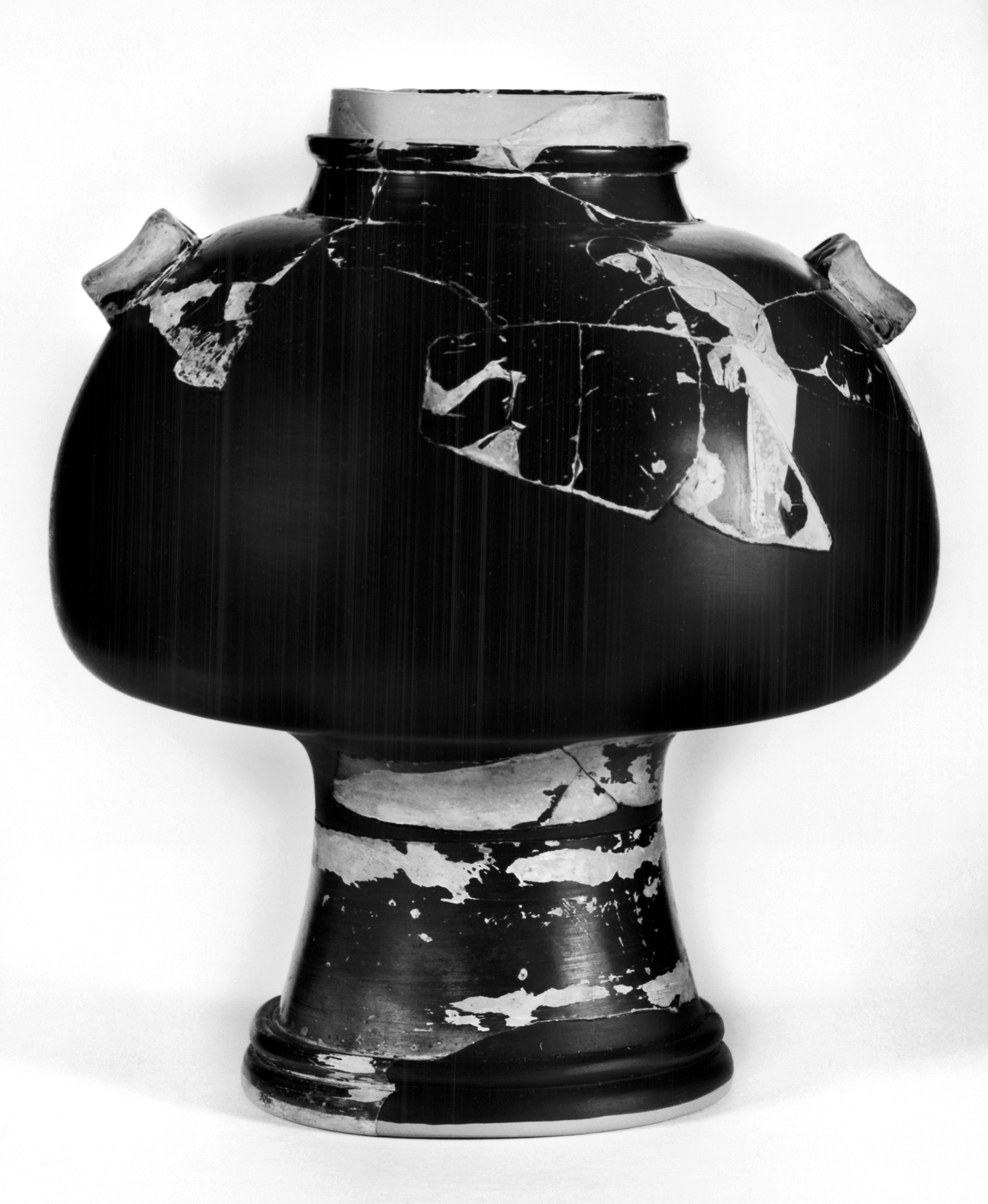 This red-figure psykter depicts an athlete and a servant boy on the front. On the left remains the left hand and lower arm of a servant holding a bag (possibly leather) by a strap. On the right a bearded male athlete in profile to the left hunches over infibulating himself; his attention is focused on the bag held by the boy. On the back are a youth and a boy (possibly courting) a dog. On the left a mantled youth with fillet leans forward on a staff. He holds both arms out and far apart, gesturing to the boy on the right. A dog (Laconian hound) sits on the ground to the right before the youth. The boy, who wears a mantle and fillet, stands attentively in profile to the left. The scene on the front is unusual. The bag held by the youth is probably of leather and may be either a small punching bag ("korukos") or simply a vessel for liquid. Leather bags were used for holding oil. The scene on the back is similar to others by the Syriskos Painter. The pose of the youth's hand is that often used by men about to or in the process of fondling their lover's genitals. This suggests a possible identification as a courting scene. The psykter comes from the Tomb of the Leopards in Tarquinia which was excavated by the Marzi brothers in 1875.